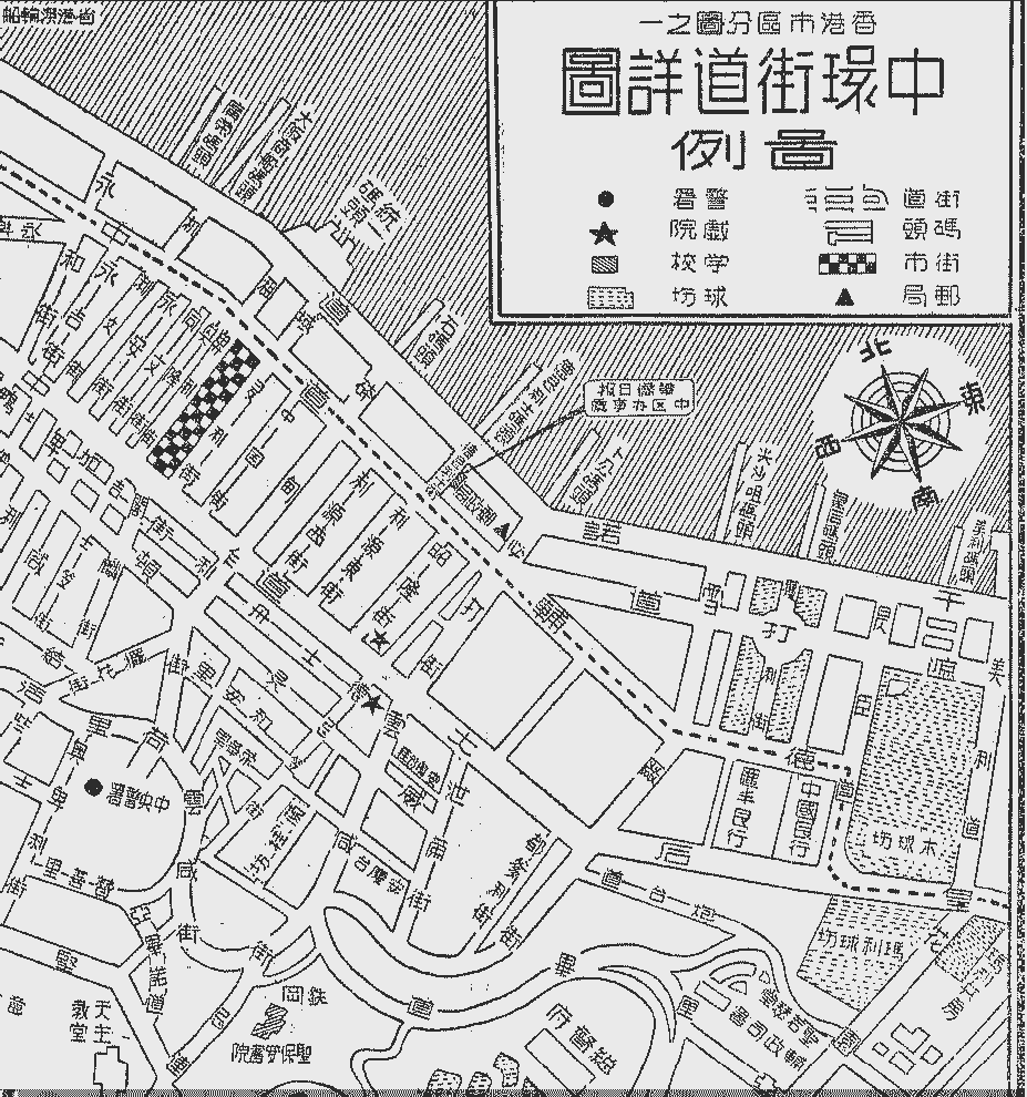 Map of Central,Hong Kong,in 1952 中文（香港）: 1952年香港中環地圖